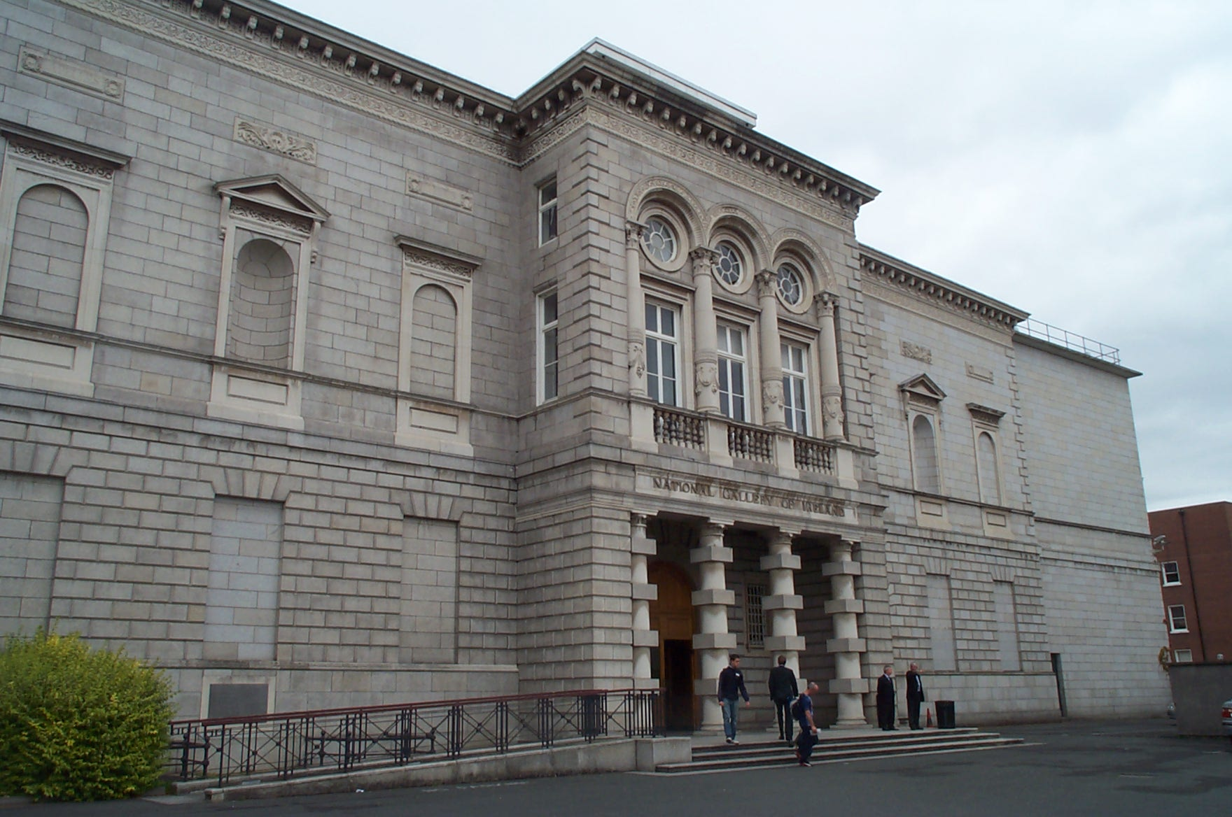 National Gallery of Ireland.